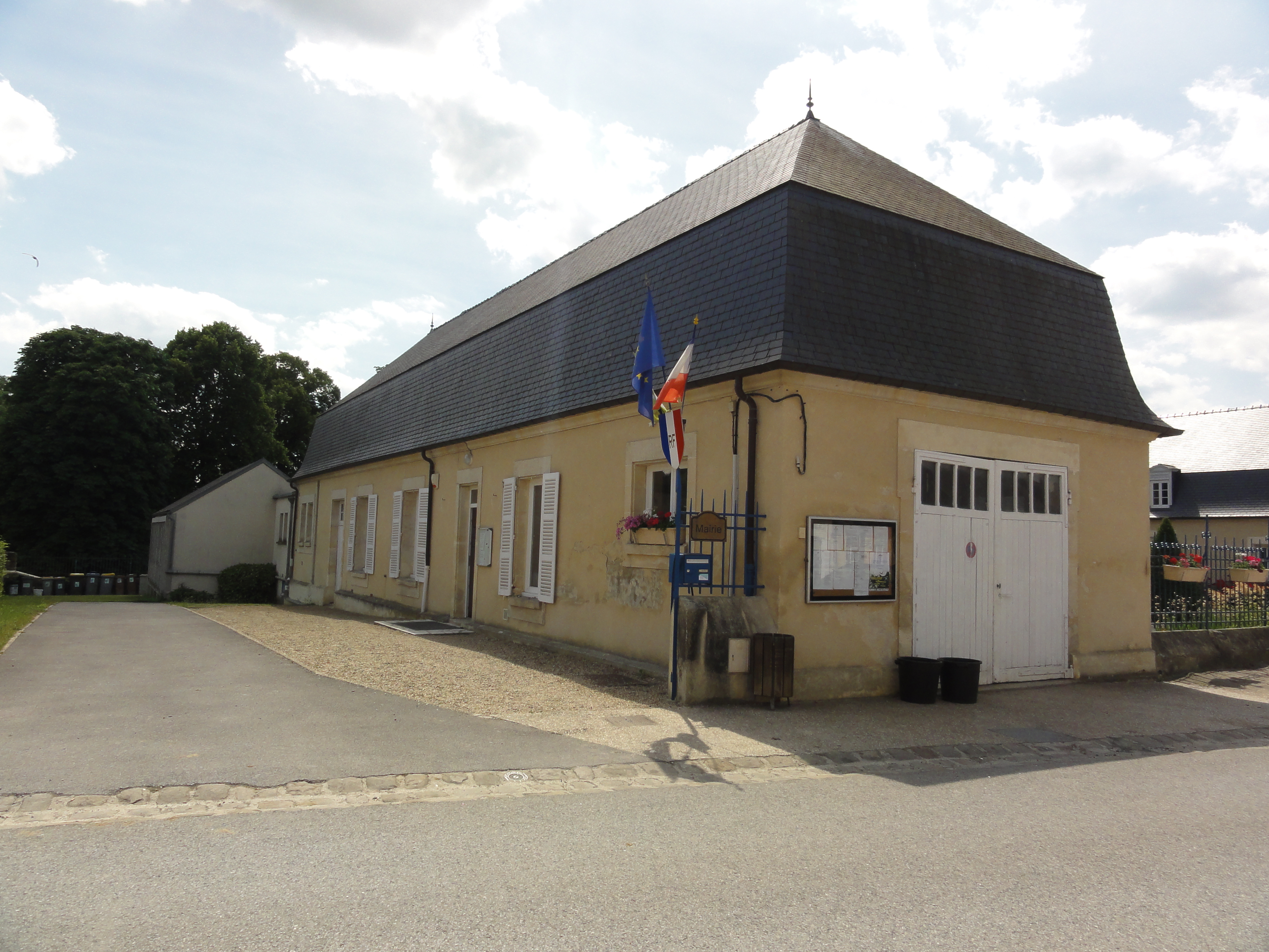 Urcel (Aisne) mairie